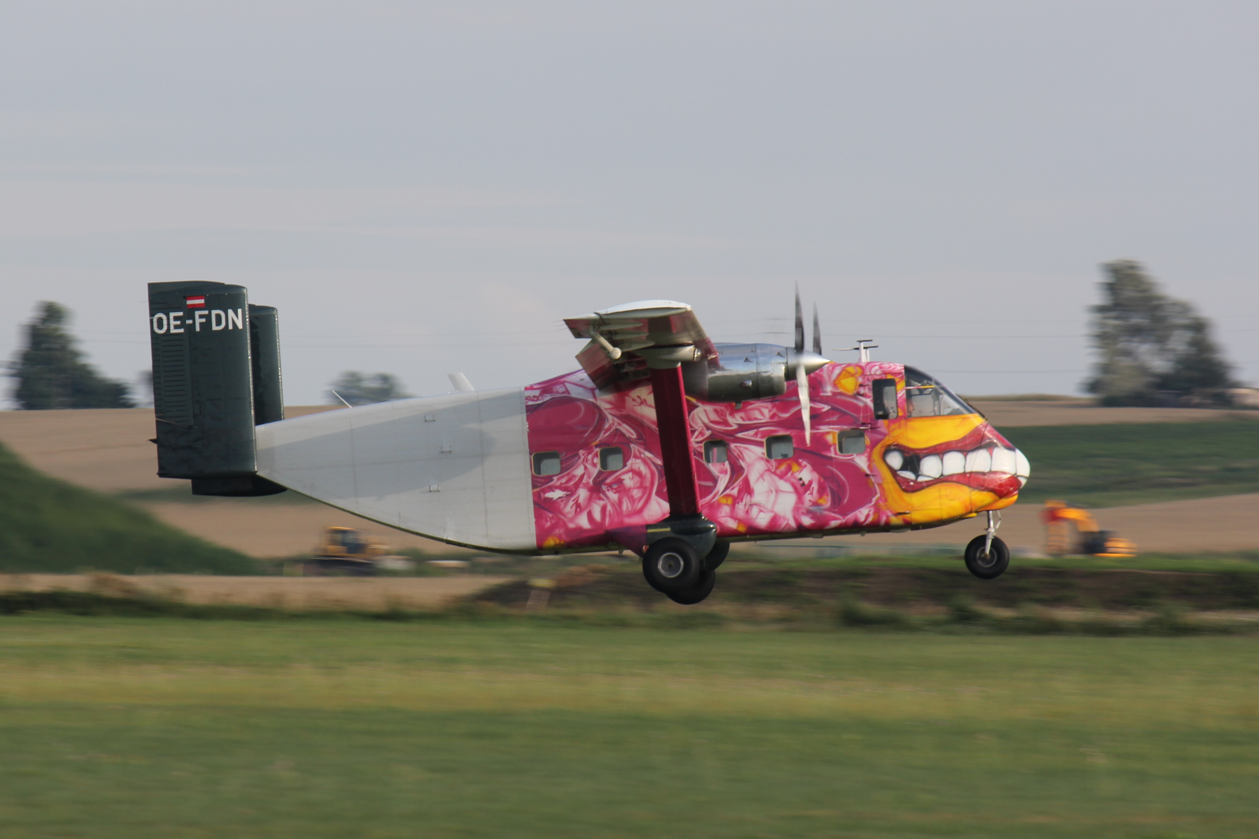 Pink SkyVan taking off in Kruszyn near Włocławek, Poland July 2011, at the Euro BigWays formation skydiving event.